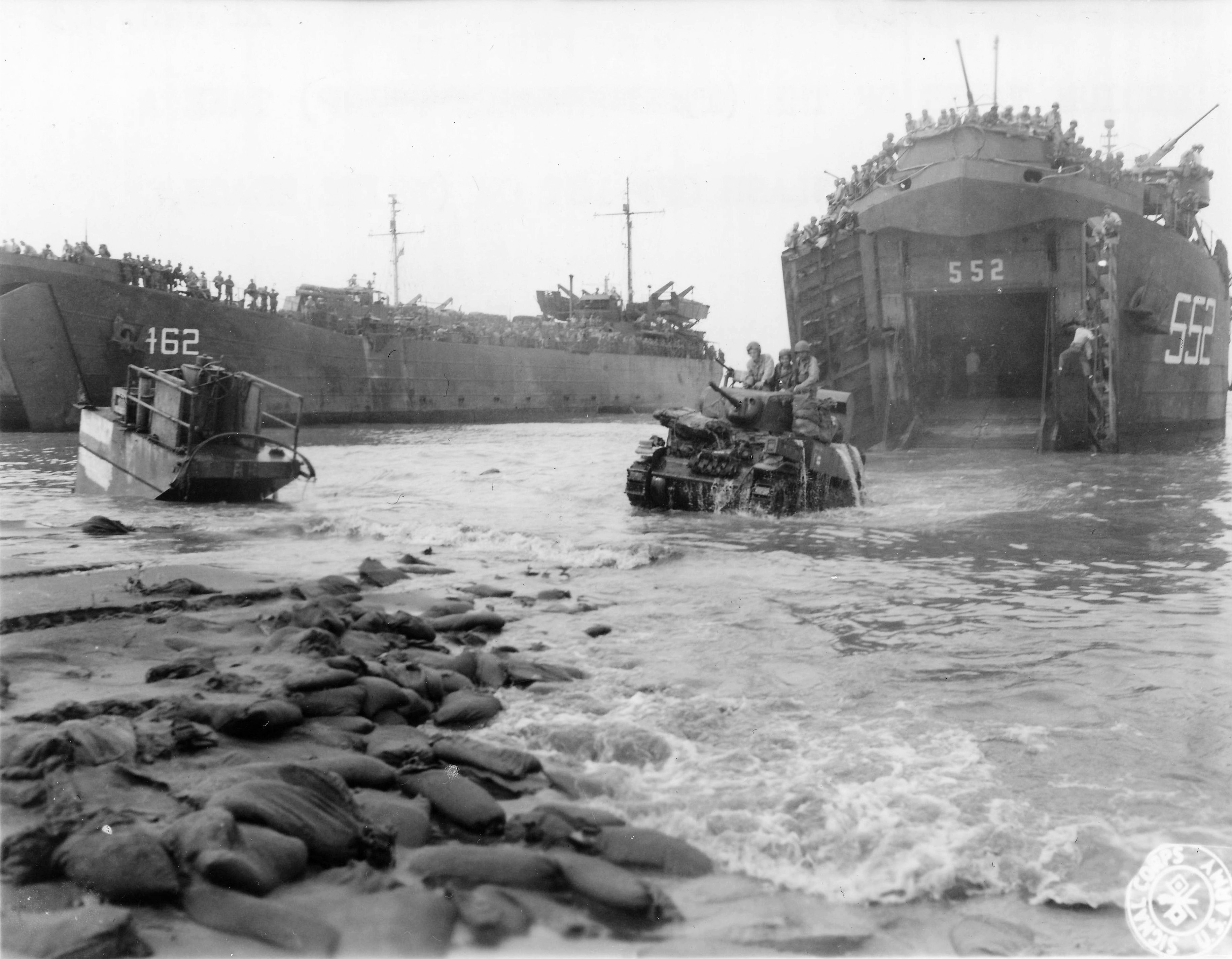 USS LST-462 beached in the background as medium tanks splash off USS LST-552 on White Beach, Luzon, Philippine Islands, 21 January 1945. US Army Signal Corps photo # SC 200015, from the collections of the US National Archives.